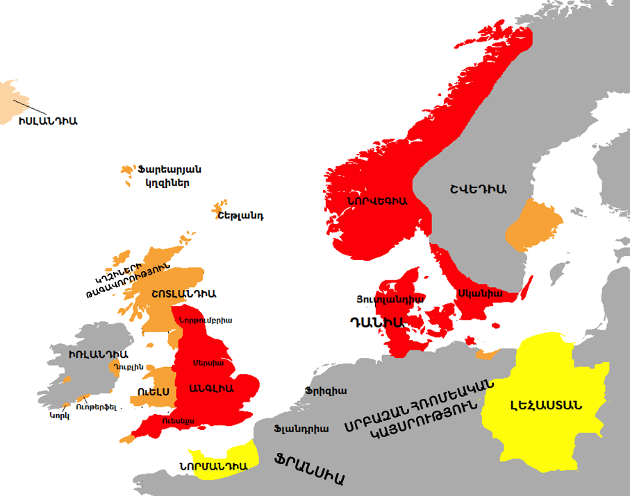 North sea empire